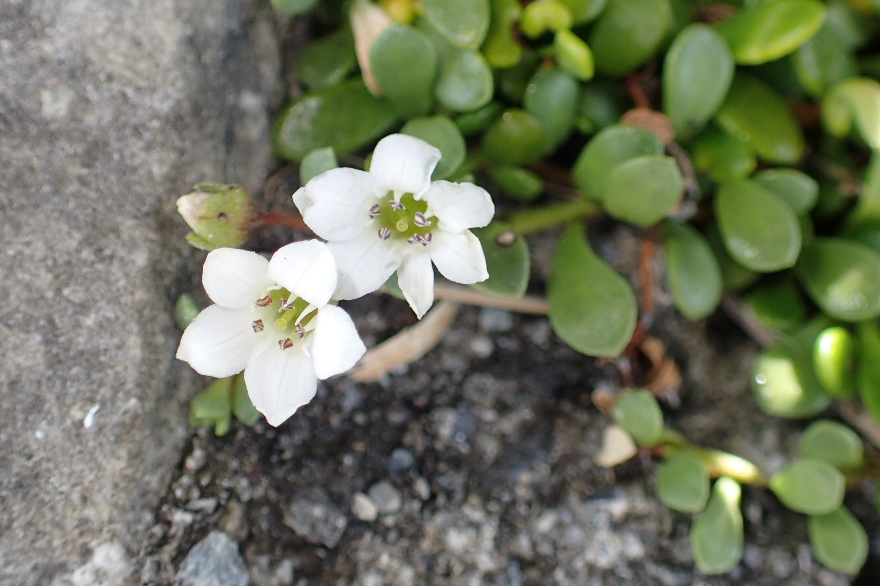 Samolus repens in Punakaiki (Pancake Rocks), West Coast (New Zealand)